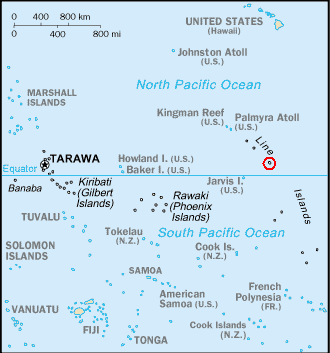 Map of Kiritimati